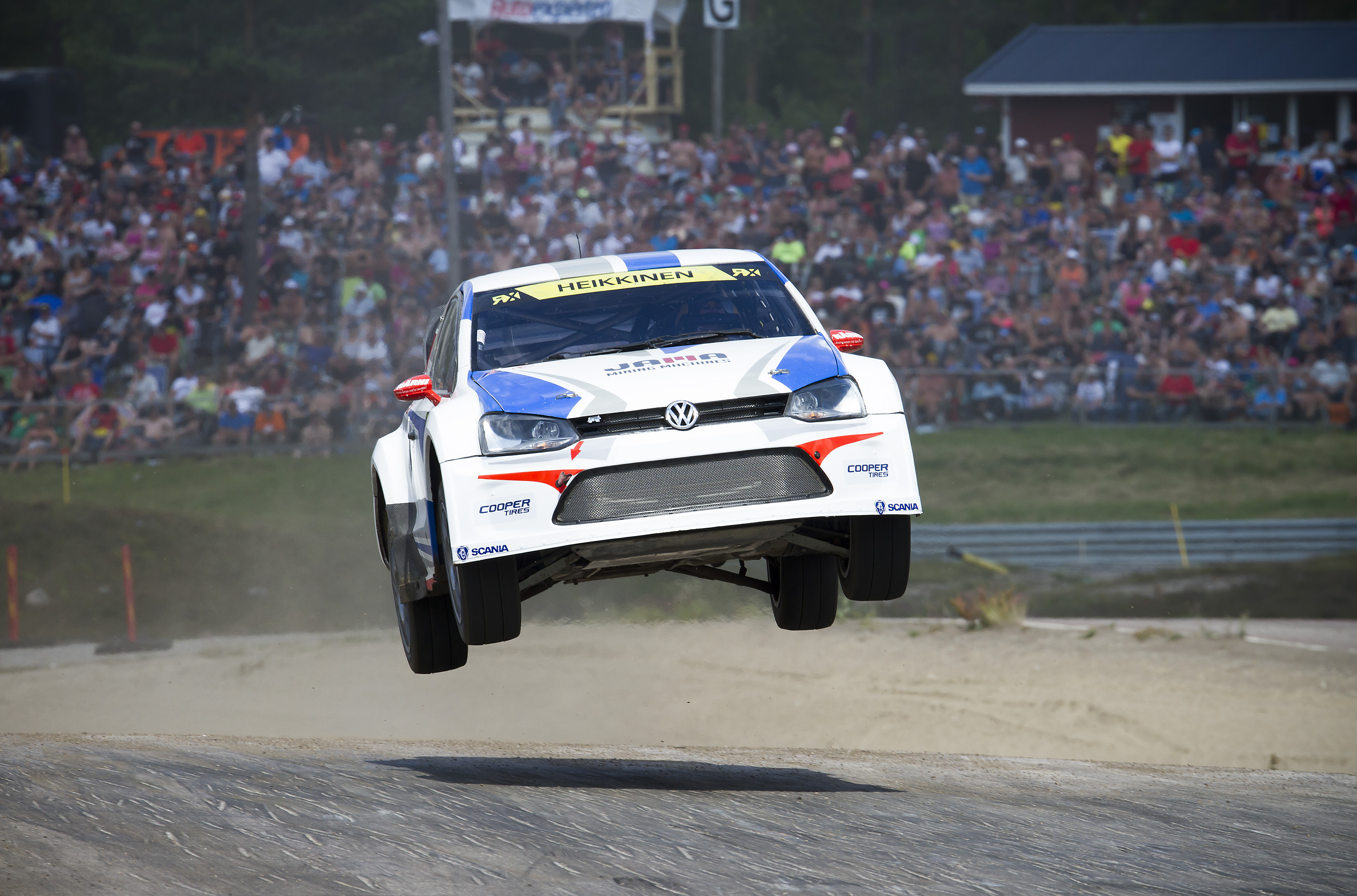 Finnish rallycross driver Toomas Heikkinen in his VW Polo Supercar. Round 5 of the 2014 FIA World Rallycross Championship, at Höljes Motorstadion, Sweden.